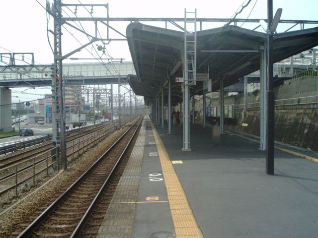 Platform of Asagiri Station(Photograpy:Nozomikobe/4 Jun,2006)